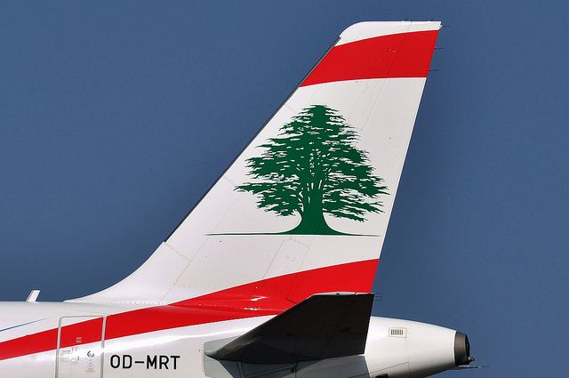 Tail of MEA airbus at Birmingham airport